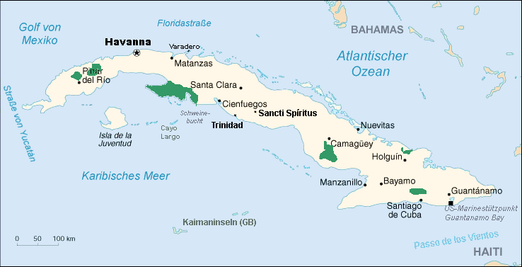 Range Map of Fernandina's Woodpecker